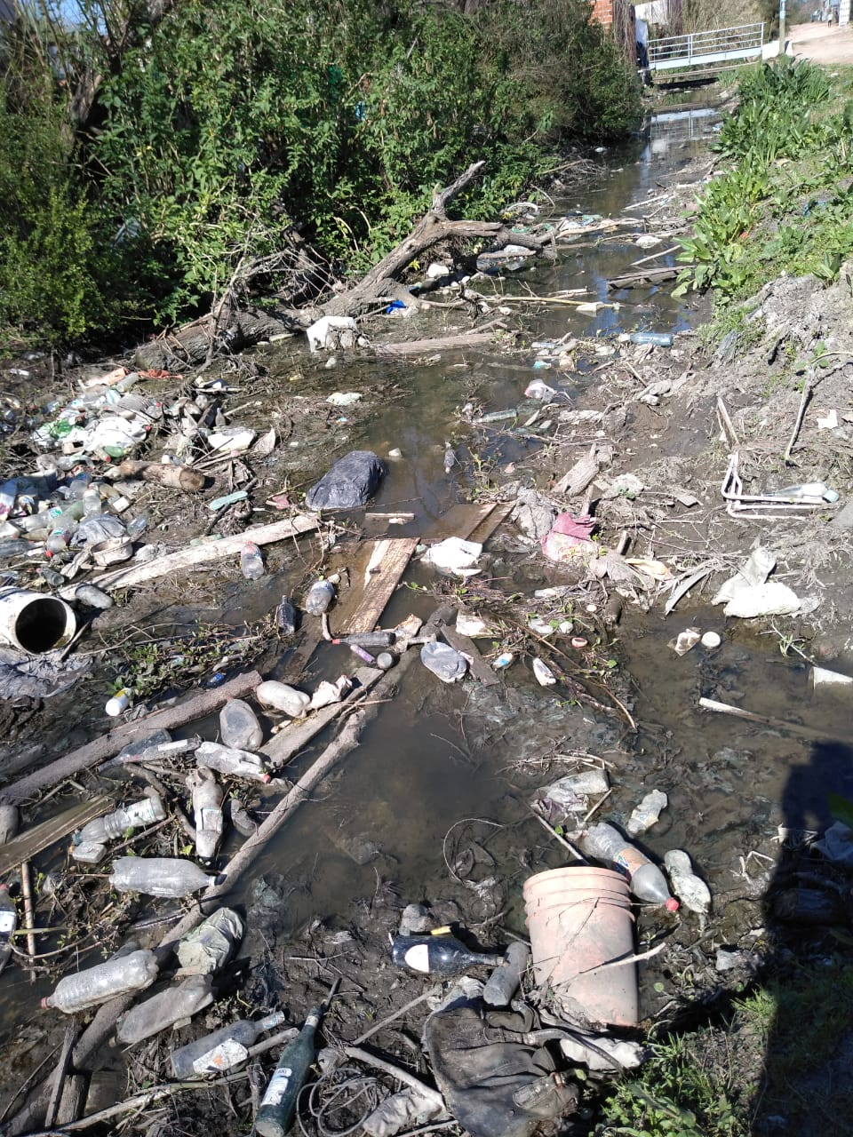 La imagen muestra el Arroyo Escobar, en la localidad de Ingeniero Maschwitz, contaminado durante el mes de Septiembre de 2019